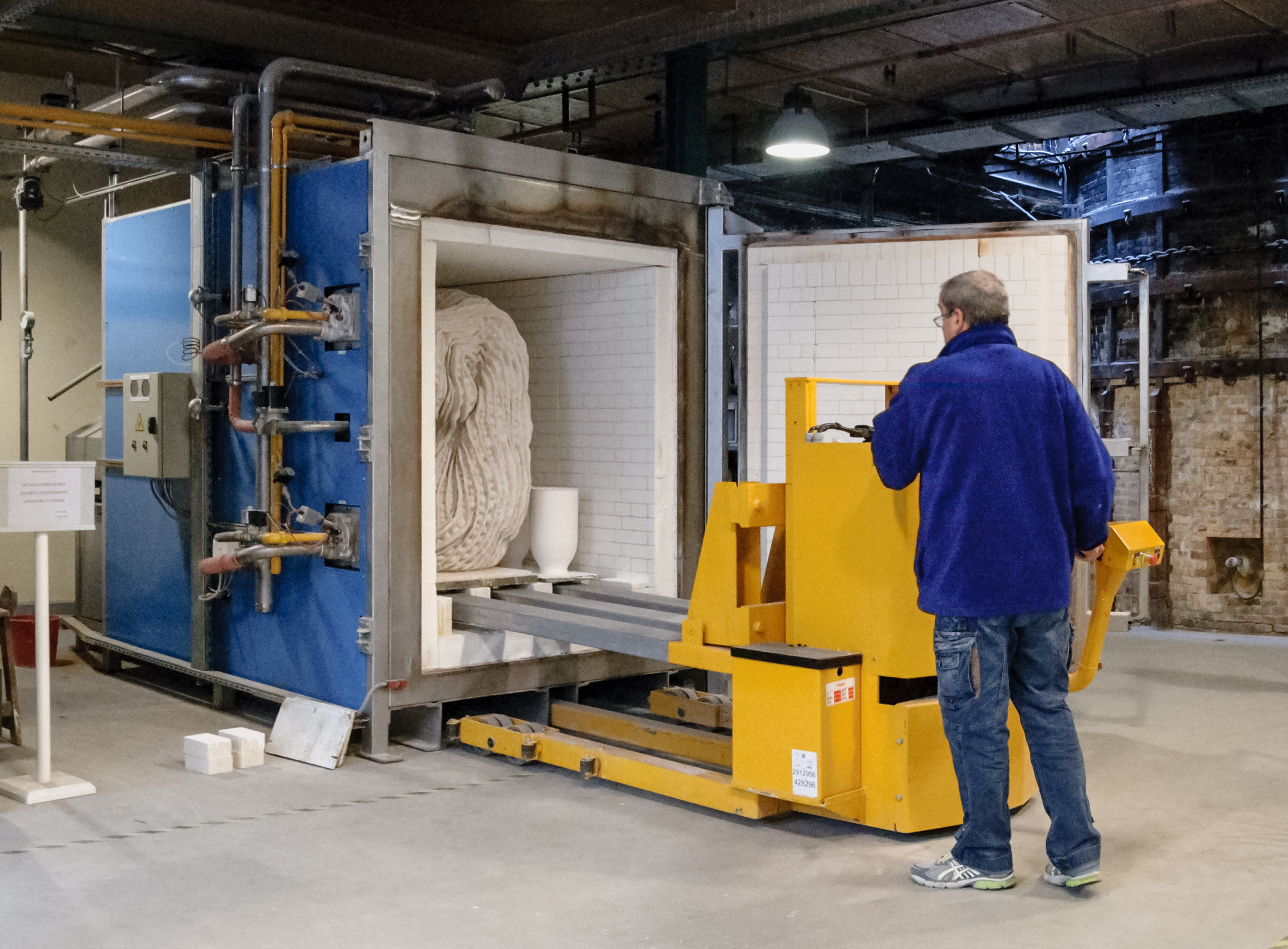 Kilns of the manufacture nationale de Sèvres, preleminary firing.